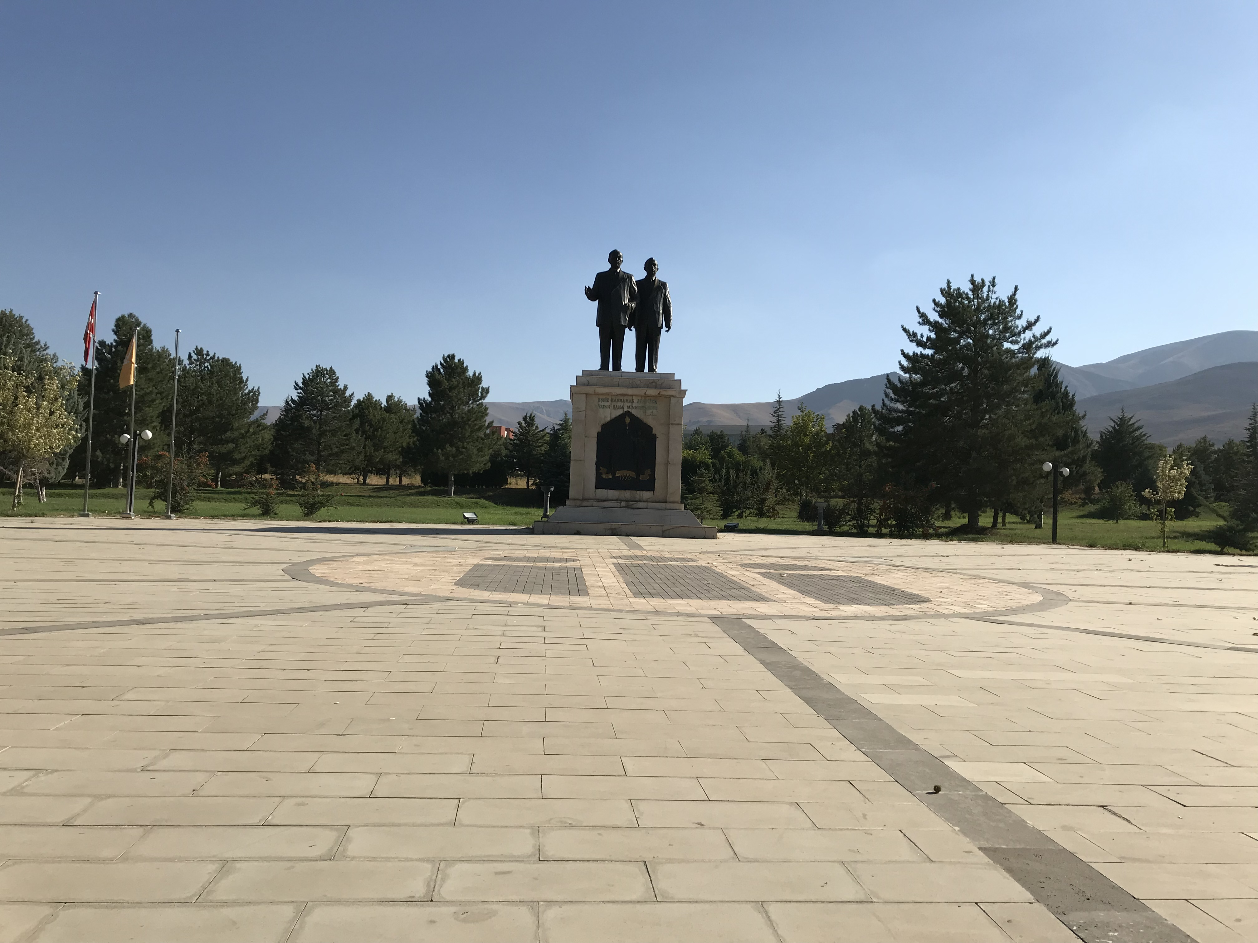 Statue of Atatürk and İsmet İnönü at İnönü University Campus in Malatya, Turkey.